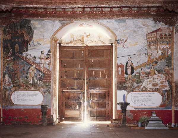 Iiglesia San Pedro Apostól. Andahuaylillas. . Peru. Church (Iiglesia San Pedro Apostól). Interior. Mural paintings. End 16th century. . Cultural heritage; Cultural heritage|Techniques|Mural painting fresco; Cultural heritage|Techniques|Painting; South America; South America|Peru; South America|Peru|Andahuaylillas. . Original colour transparancy. 1992. . Photo: Paul M.R. Maeyaert. . © Paul M.R. Maeyaert; . Ref PMa_000015_PE_Andahualillas.